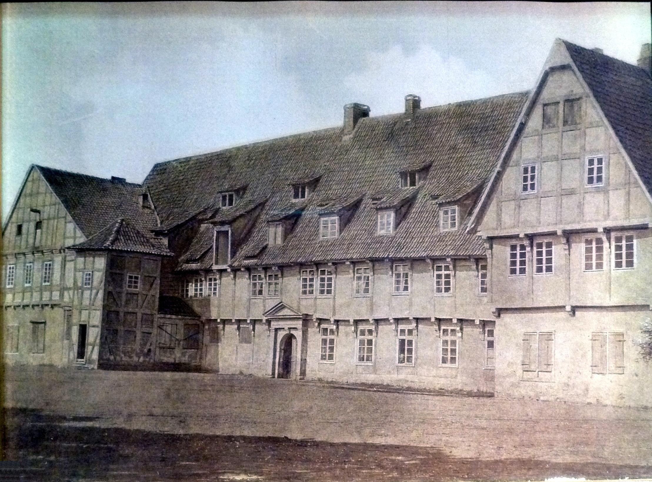 Old building of the Rinteln university (around 1850) before demolition